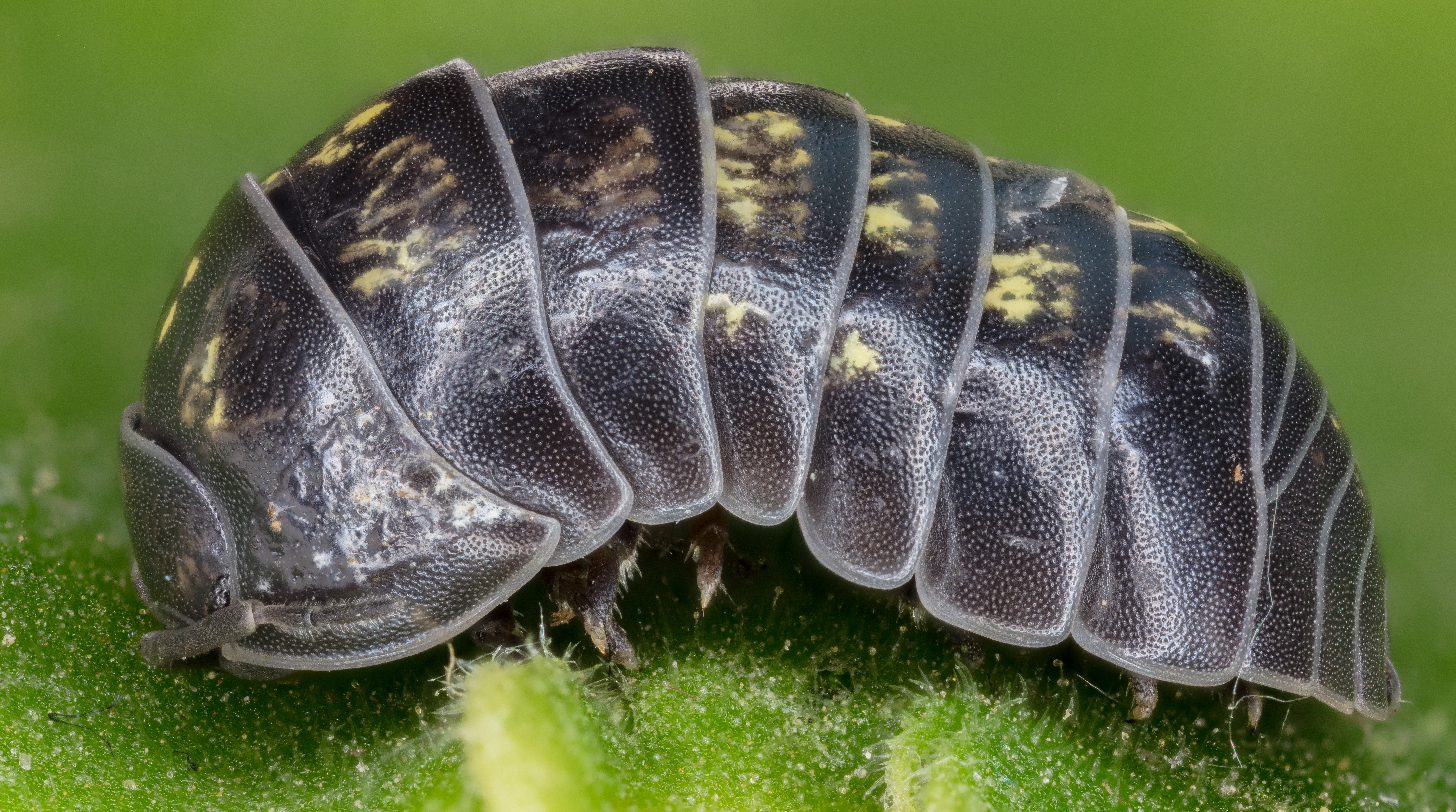 Specimen of pill bug (Armadillidium opacum), Hartelholz, Munich, Germany